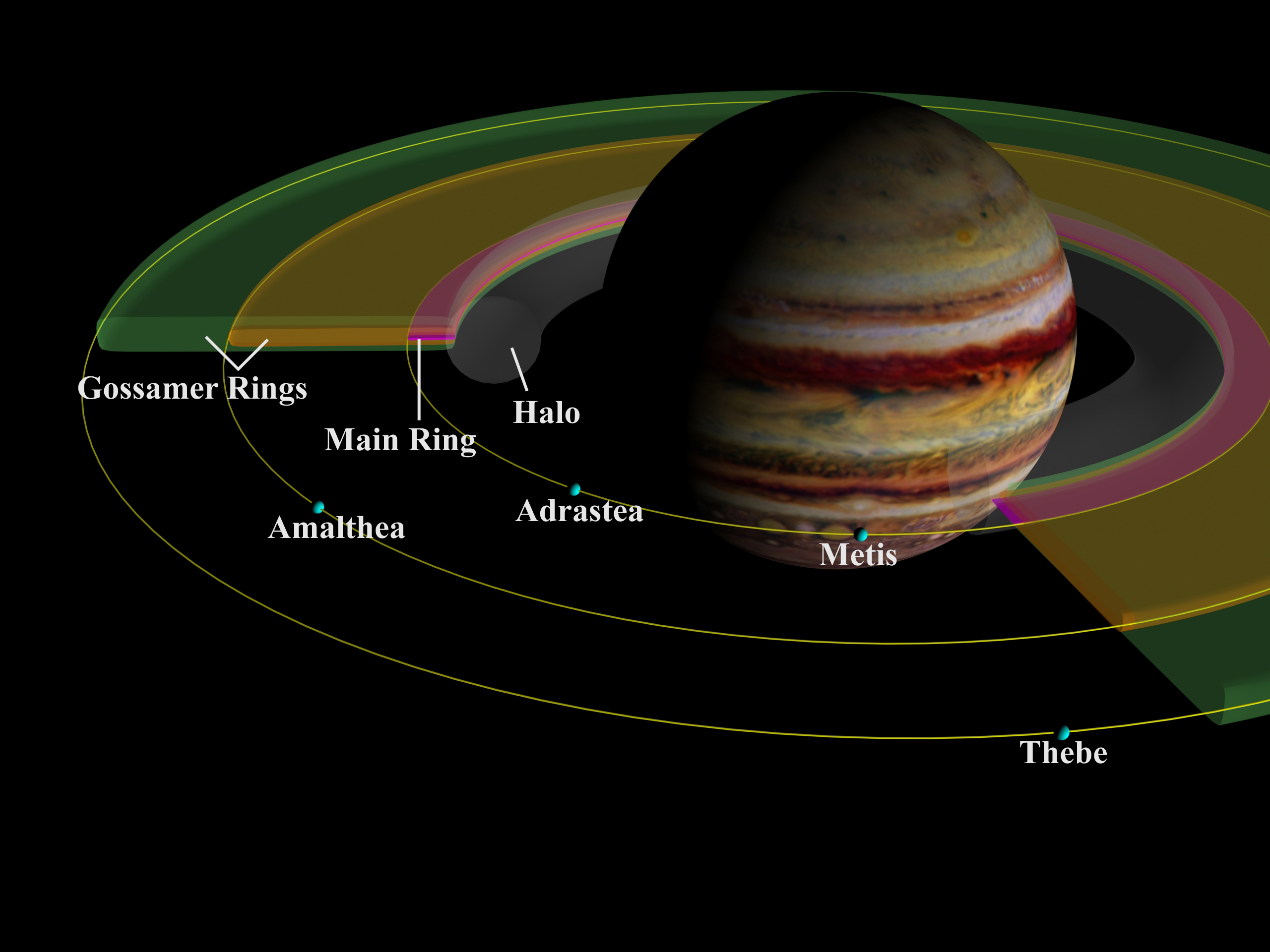 Rings of Jupiter.Category:Jupiter